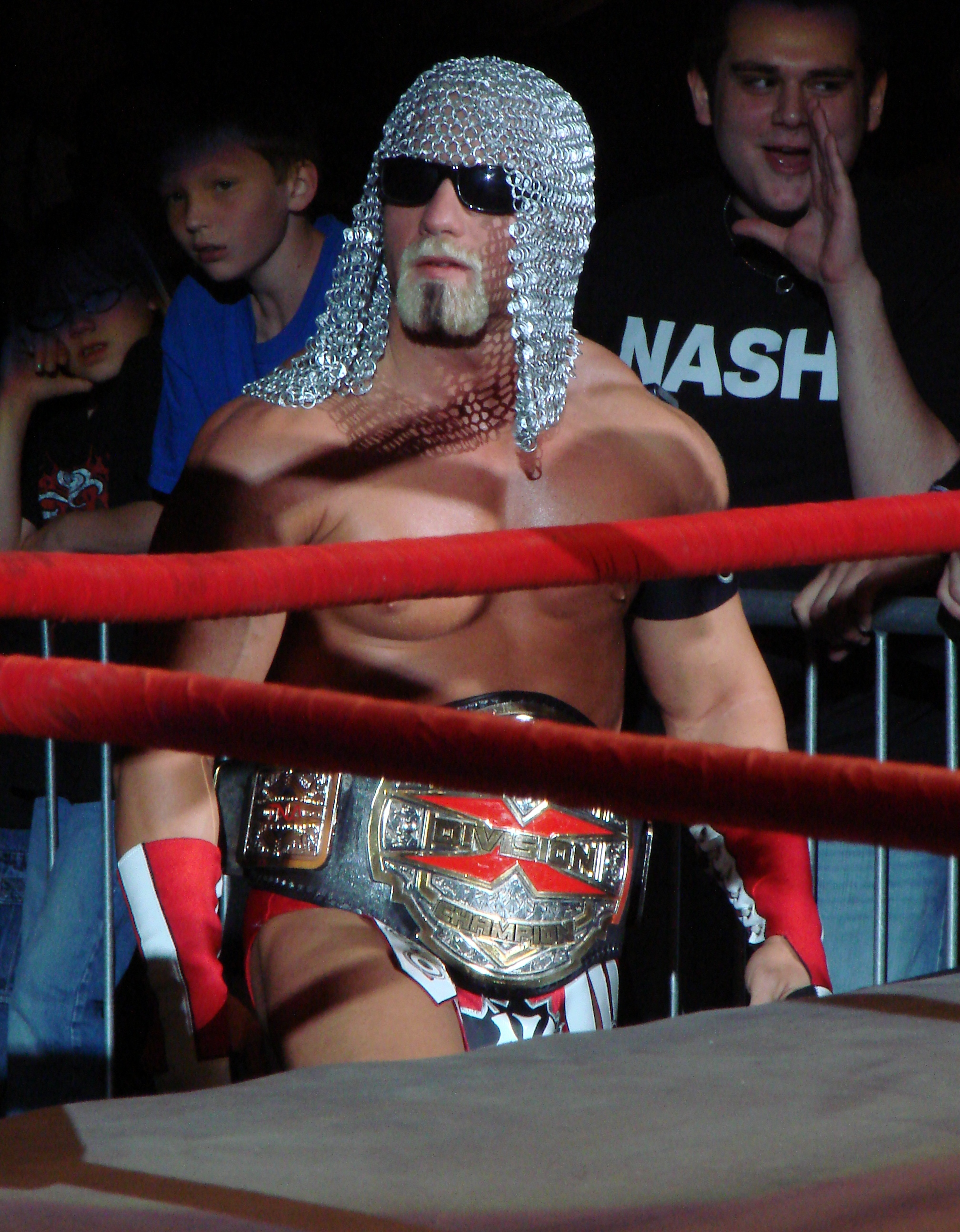 X-Division Champion Scott Steiner at a TNA Live Event. US Cellular Coliseum, Bloomington IL